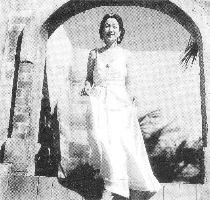 Yukiko Todoroki (Those for the cover of propaganda magazine for Thailand, Masashi Matsuda have taken in November 1942).